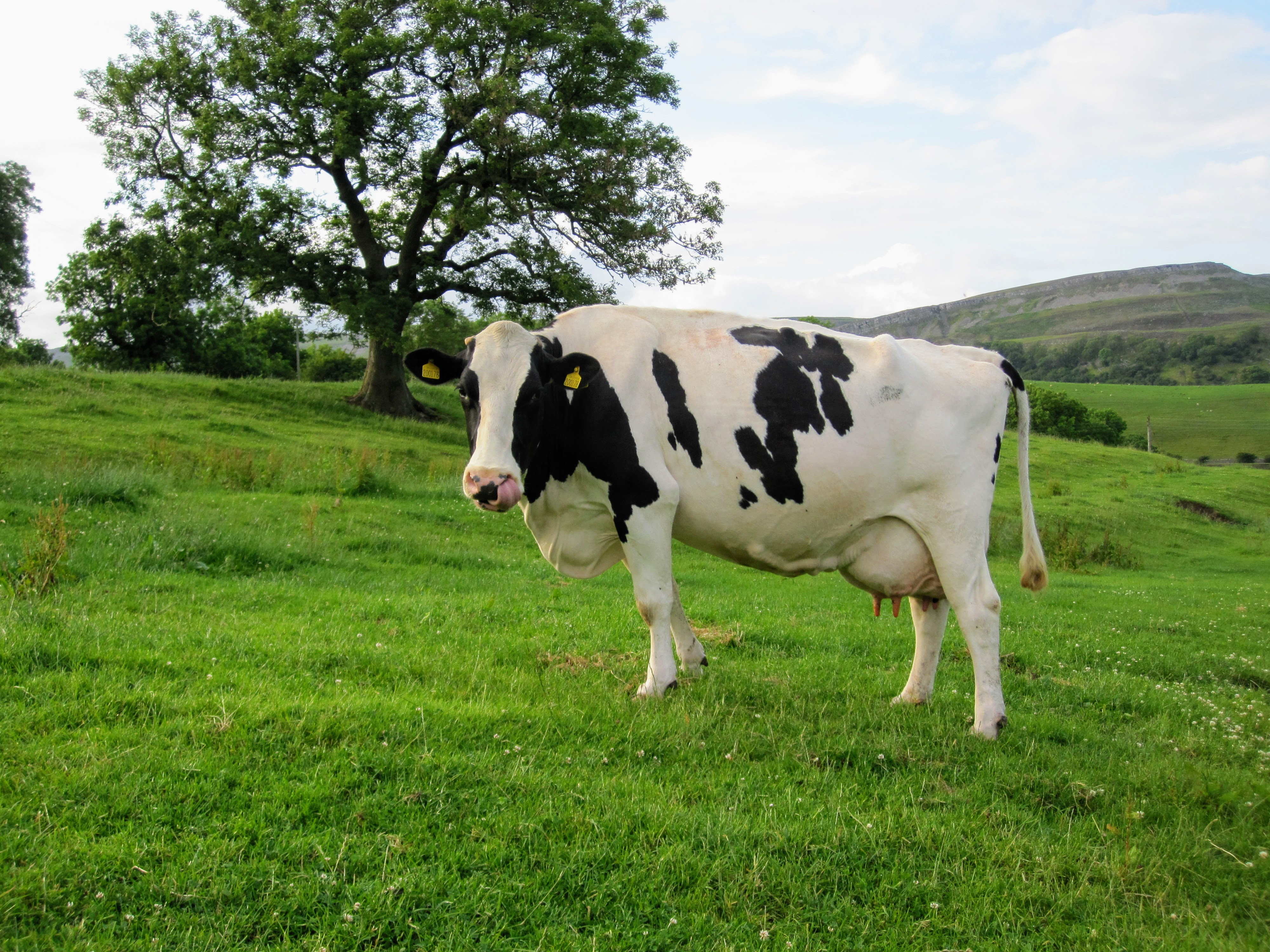 A photo of a Cow on a hillside licking its nose and beimg suprised to have its photo taken.